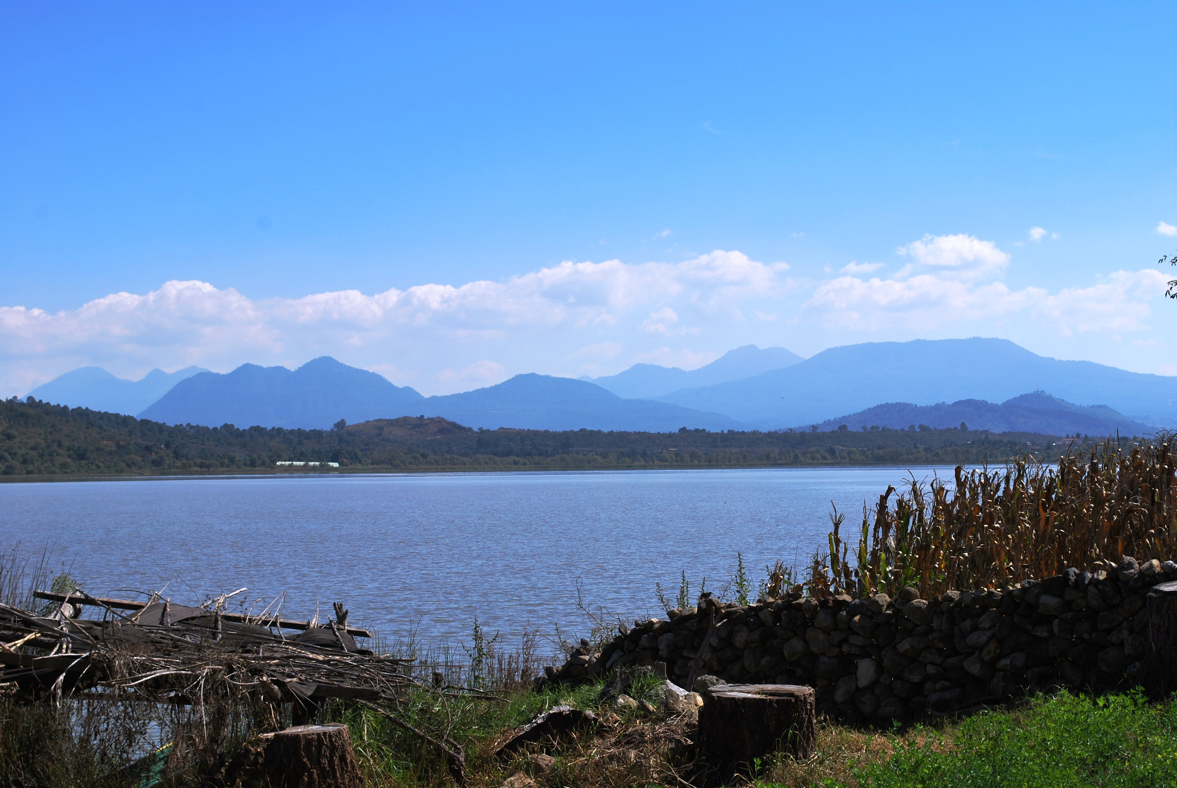 View of Lake Patzcuaro looking SSE from Pacanda Island